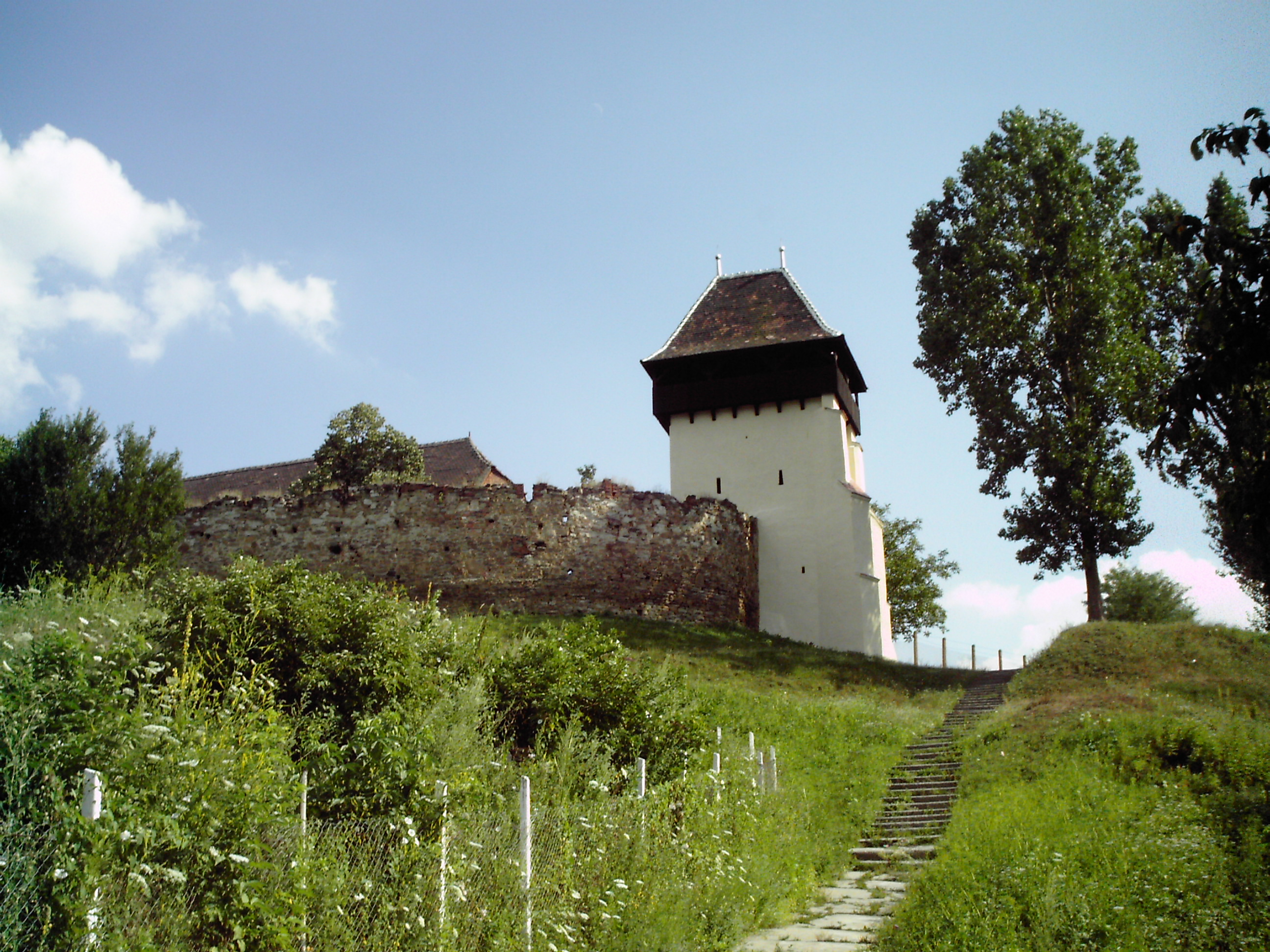 Saxon fortified church in Tapu Romania